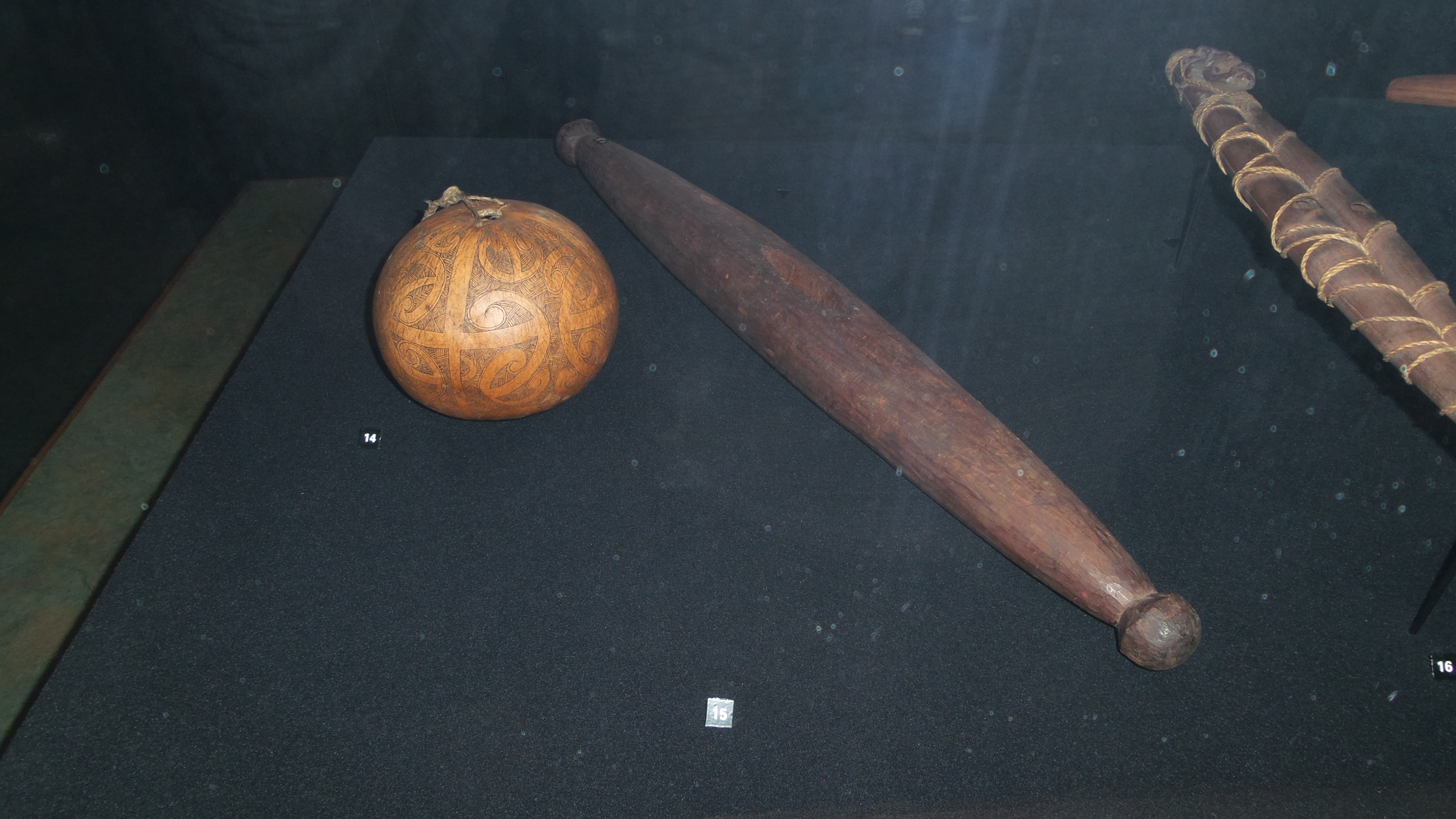 Maori poi awhiowhio and pahu (gourd instrument and wooden gong) in Te Papa, Museum of New Zealand.